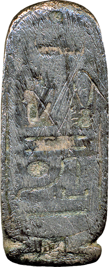 A heavy silver signet ring cast in one piece, with a bezel in the shape of a cartouche. The surface of the bezel has been filed down so far that the hieroglyphs are barely discernable. They give the throne name of Amenmesses, a little known pharoah of the 19th Dynasty, and two epithets "beloved of Amun" and "whom Re had chosen."